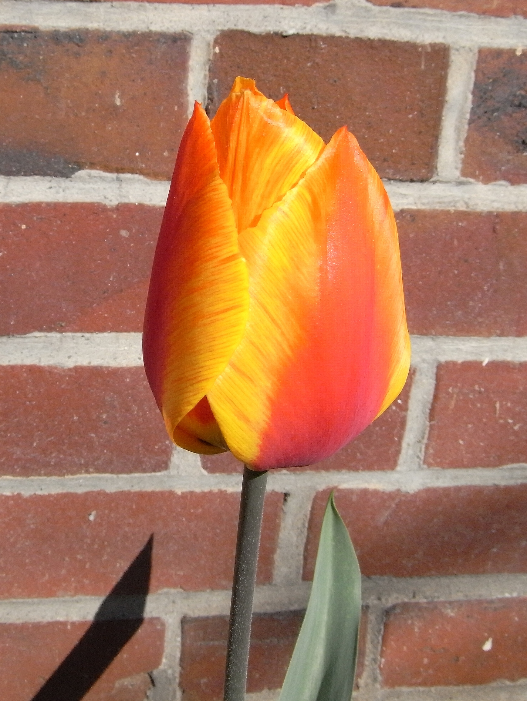 Tulipa